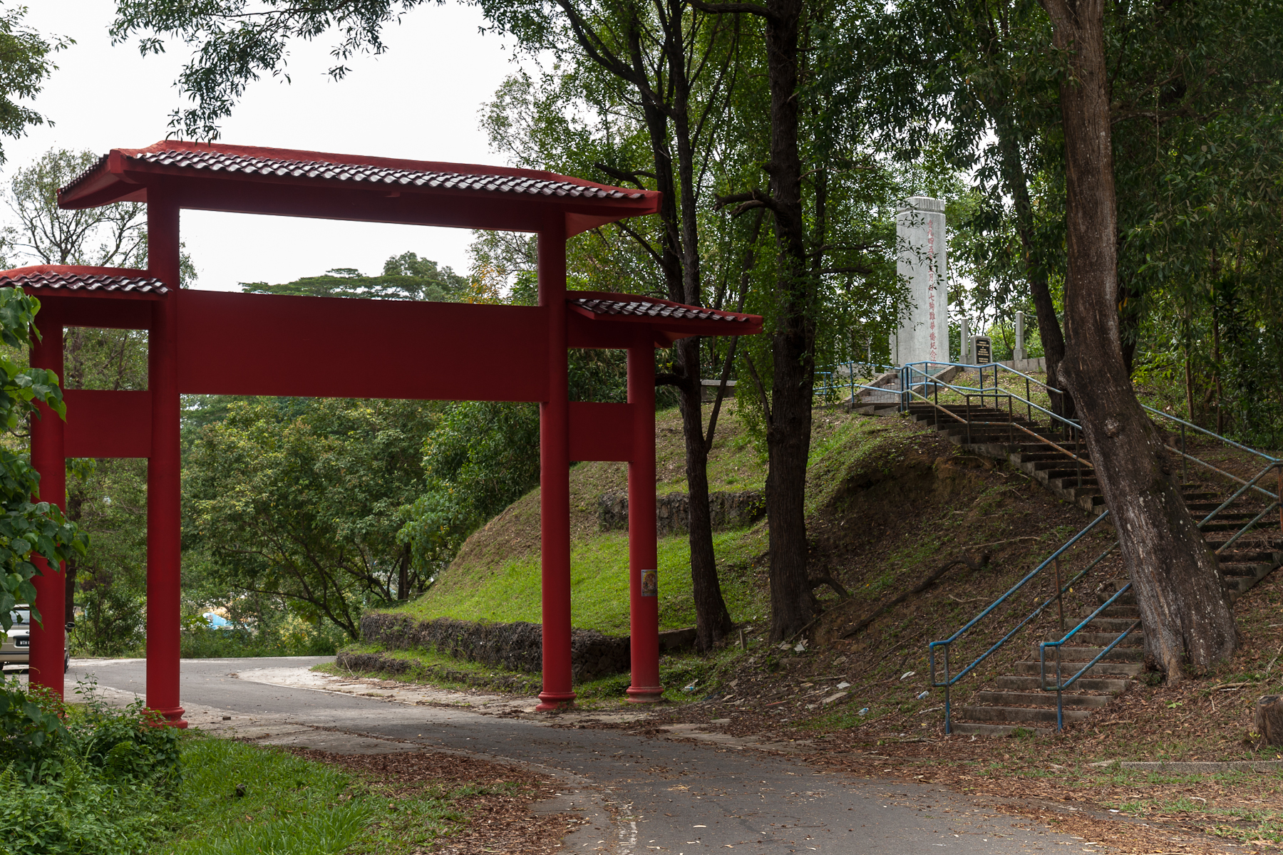 Sandakan, Sabah: Chinese Memorial for the Massacre of may 27, 1945; gate to cemetary, memorial on right side